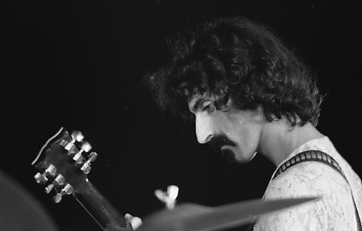 Mothers of invention, Theatre de Clichy, Paris, 1970-1972